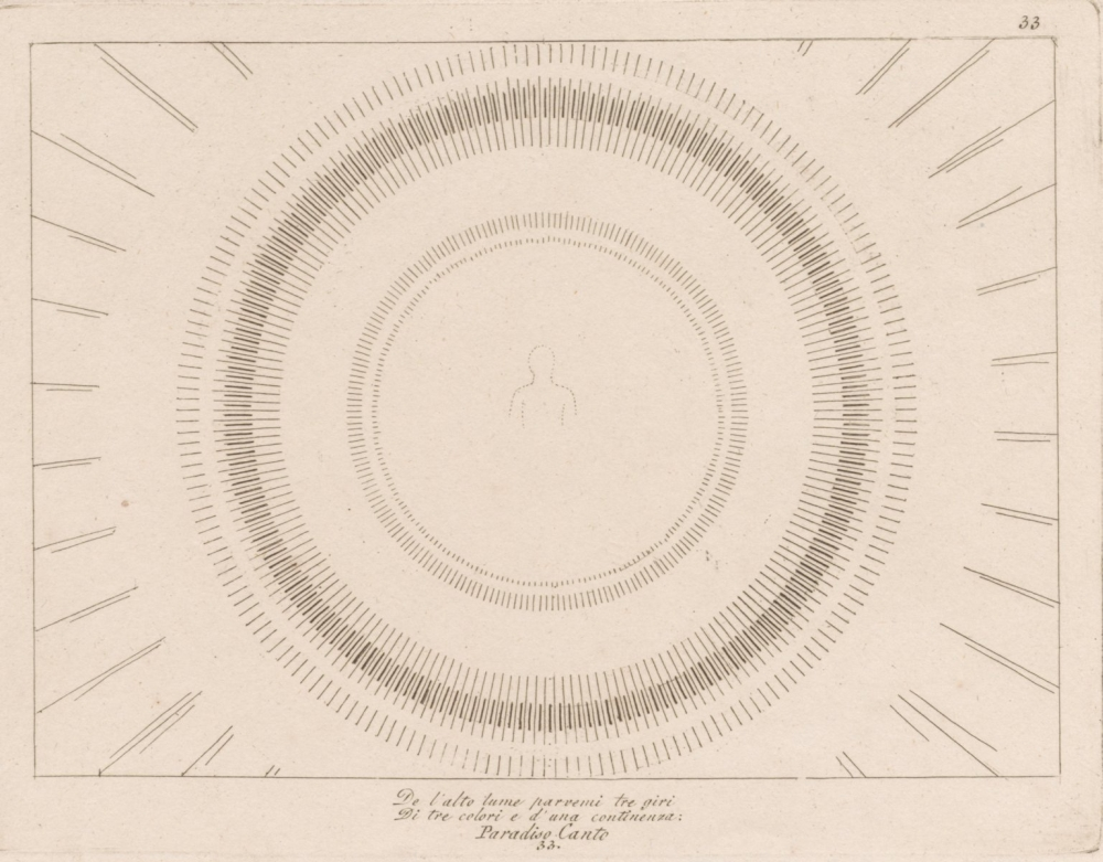 Engraving: De l'alto lume parvemi tre giri, Di tre colori e d'una continenza (translated as Of the High Light appeared to me three circles, Of three colors and continence [1]) from Divina Commedia by Dante - illustration designed by John Flaxman, engraved by Tommaso Piroli.